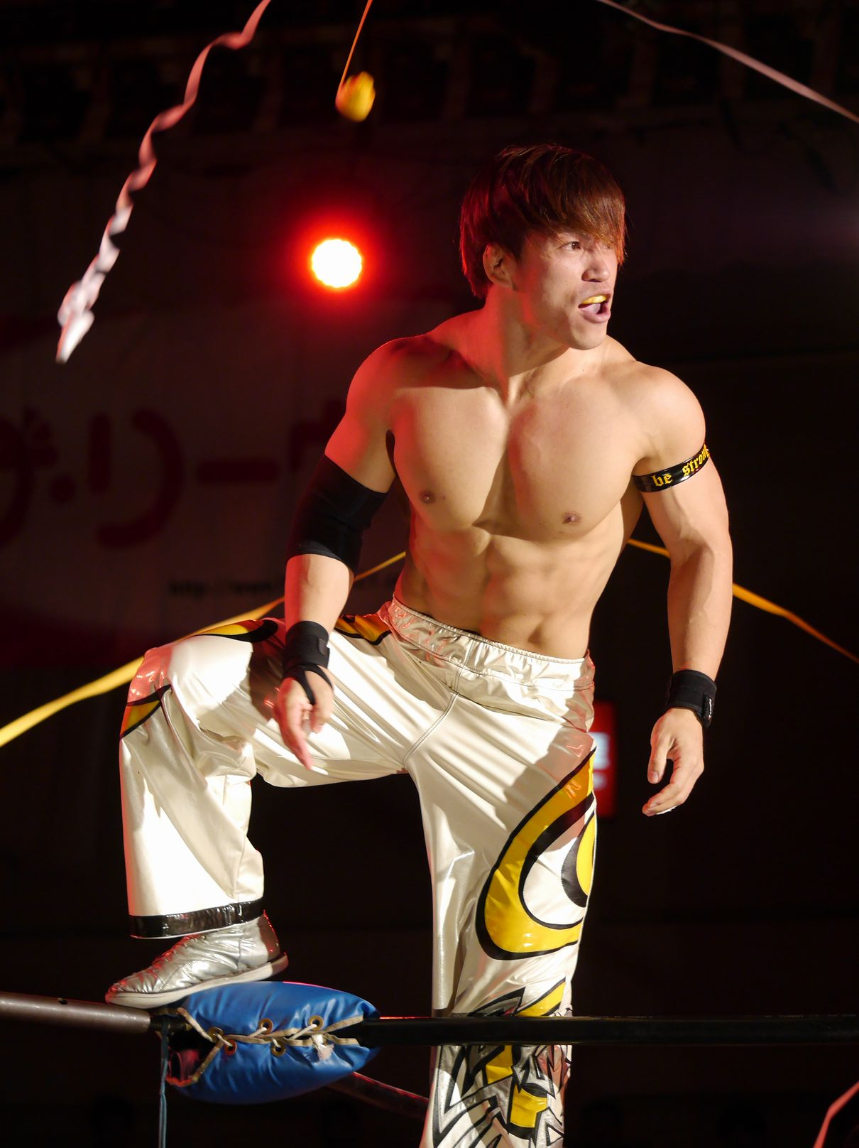 Japanese professional wrestler Taiji Ishimori